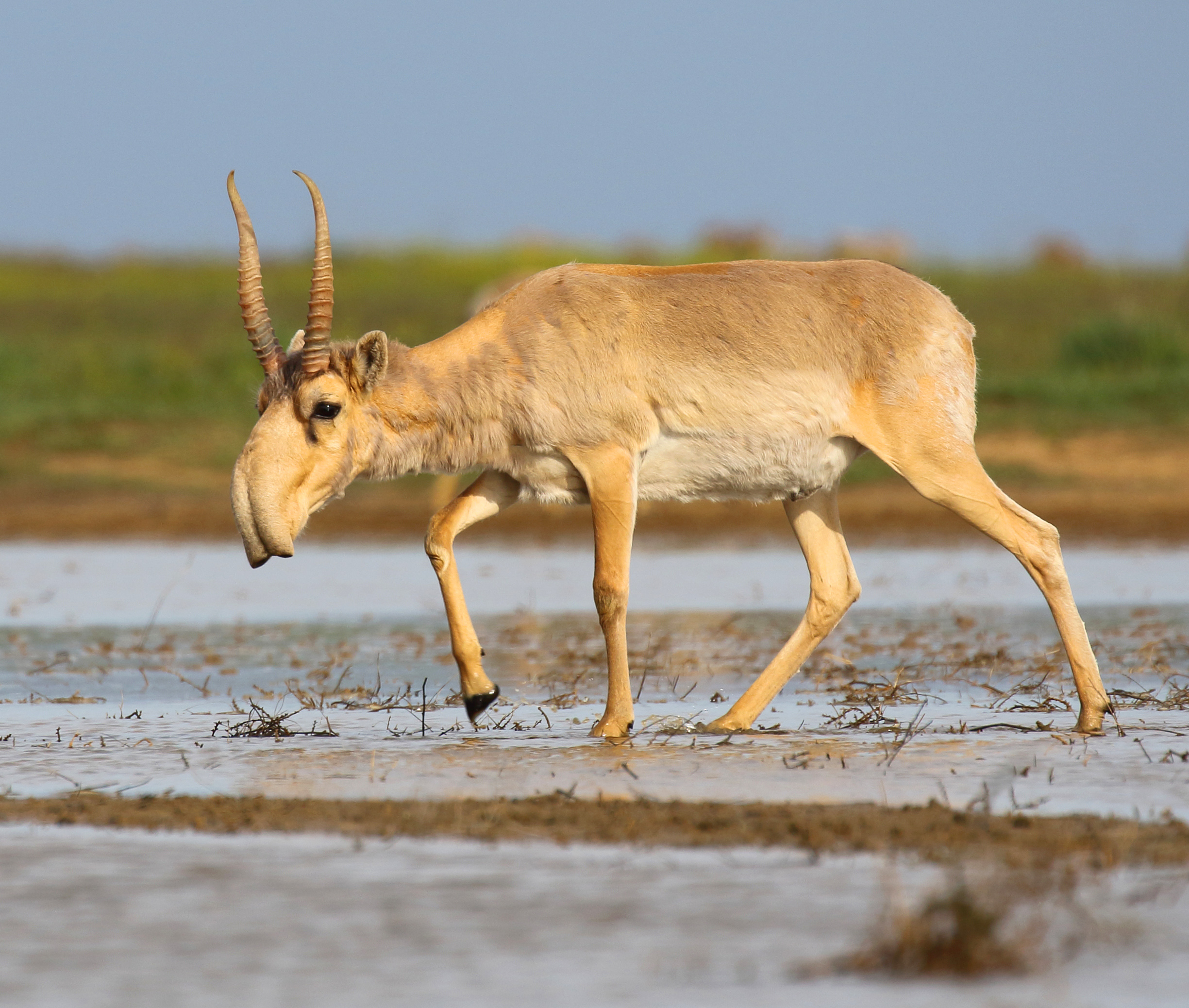 Wild saiga antelope, Saiga tatarica tatarica visiting a waterhole at the Stepnoi Sanctuary, Astrakhan Oblast, Russia.